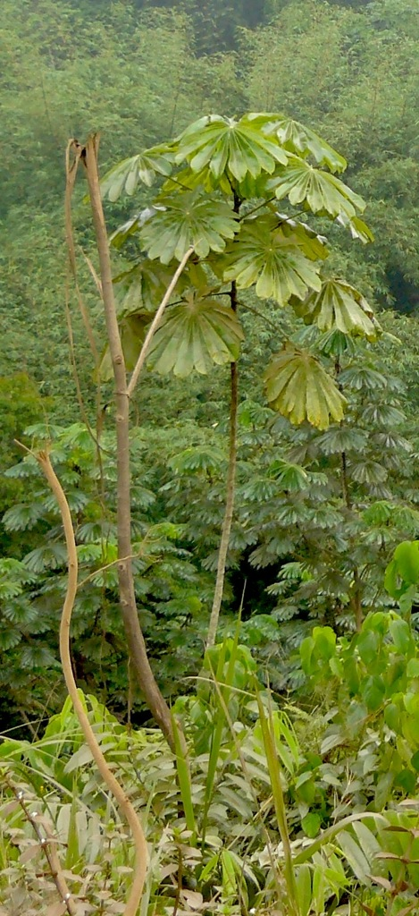 Musanga cecropioides — African corkwood tree or umbrella tree. In the tropical rainforest of the Mayombe region, in the Congo Basin.